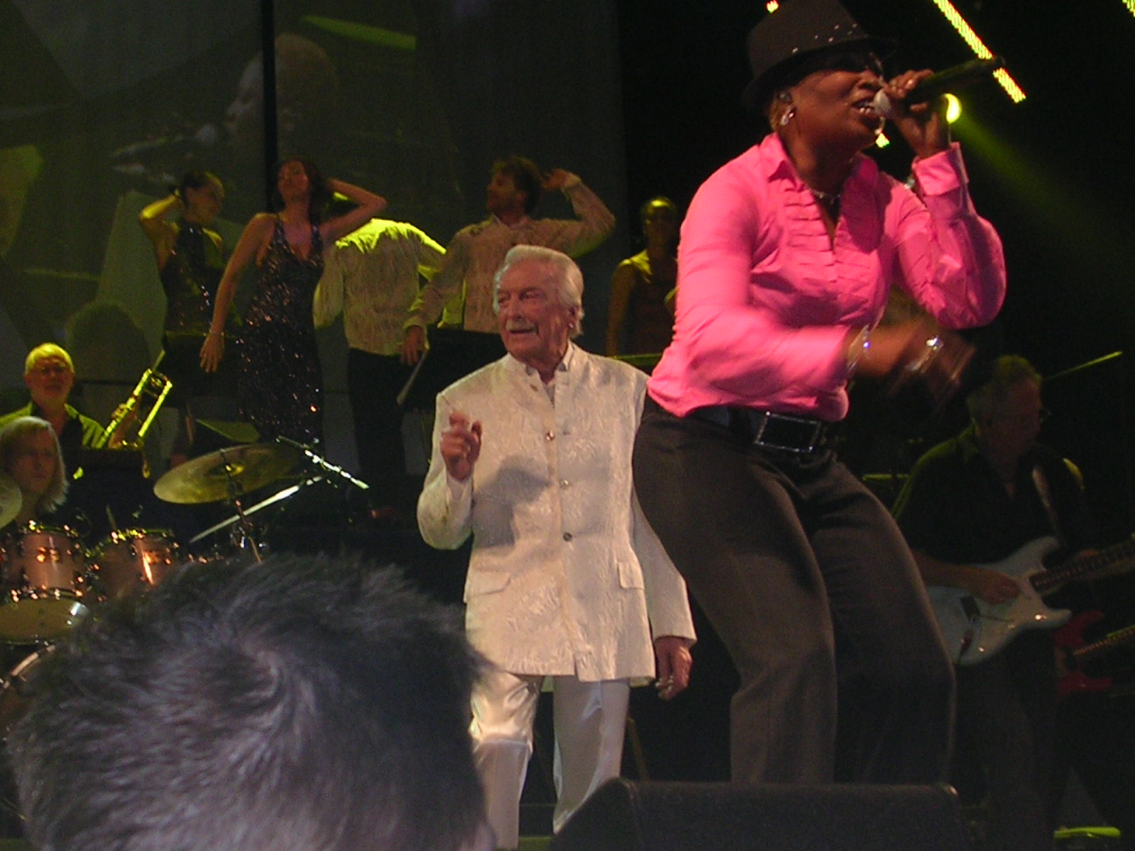 James Last with Band